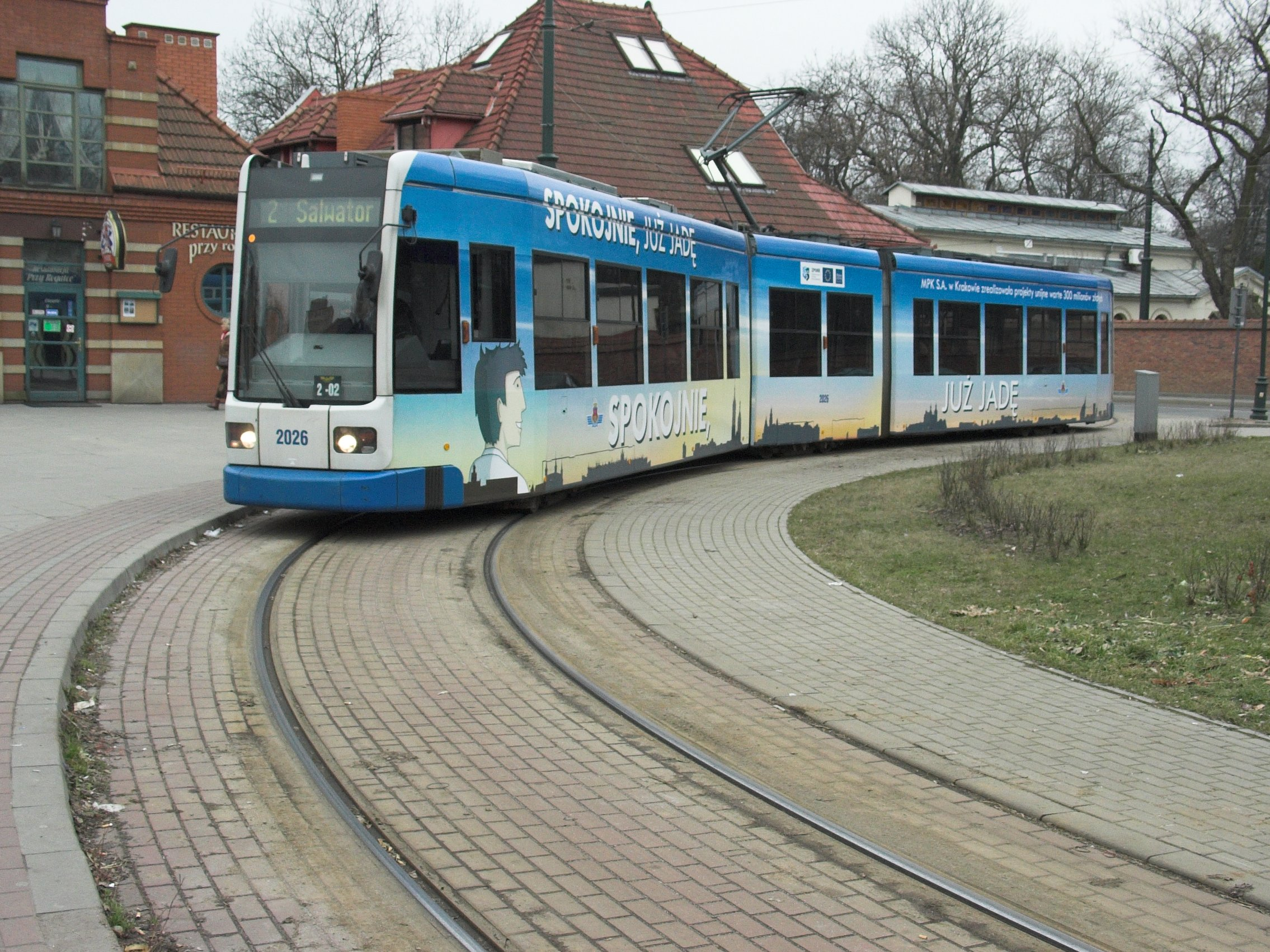 Bombardier NGT6 tram in Kraków, Poland.